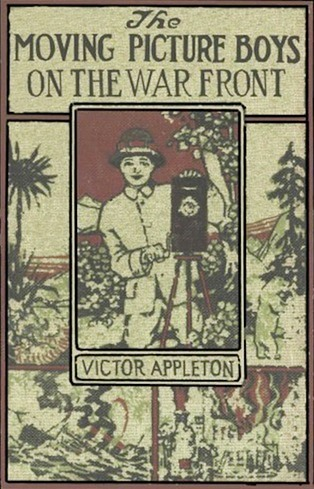 The Moving Picture Boys on the War Front - Cover - Project Gutenberg etext 17744